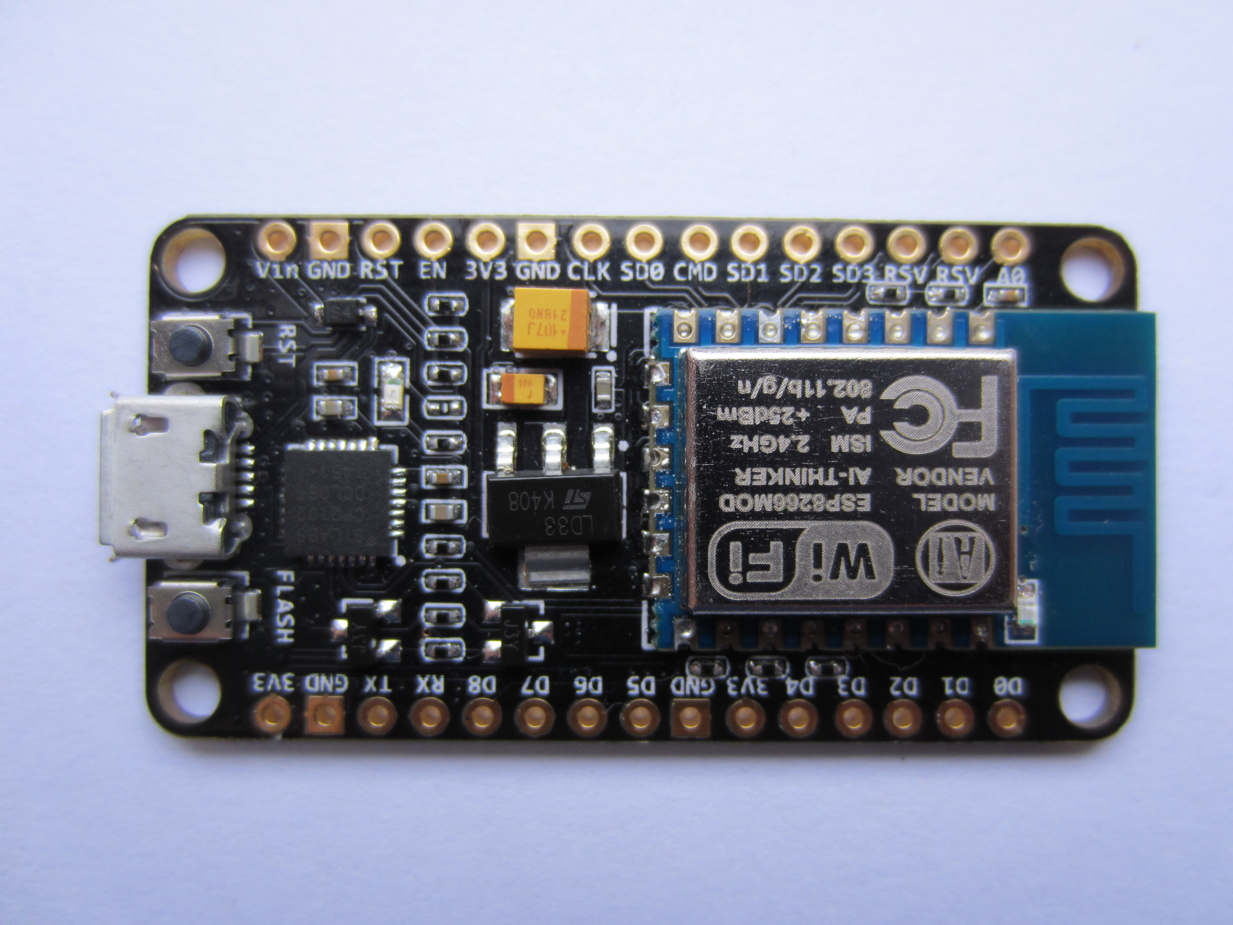 NodeMCU development board version 1.0 for NodeMCU Firmware, it based on ESP8266 Wi-Fi SoC. It based CP2102 USB-UART bridge and support MAC OS. It is the beta version.